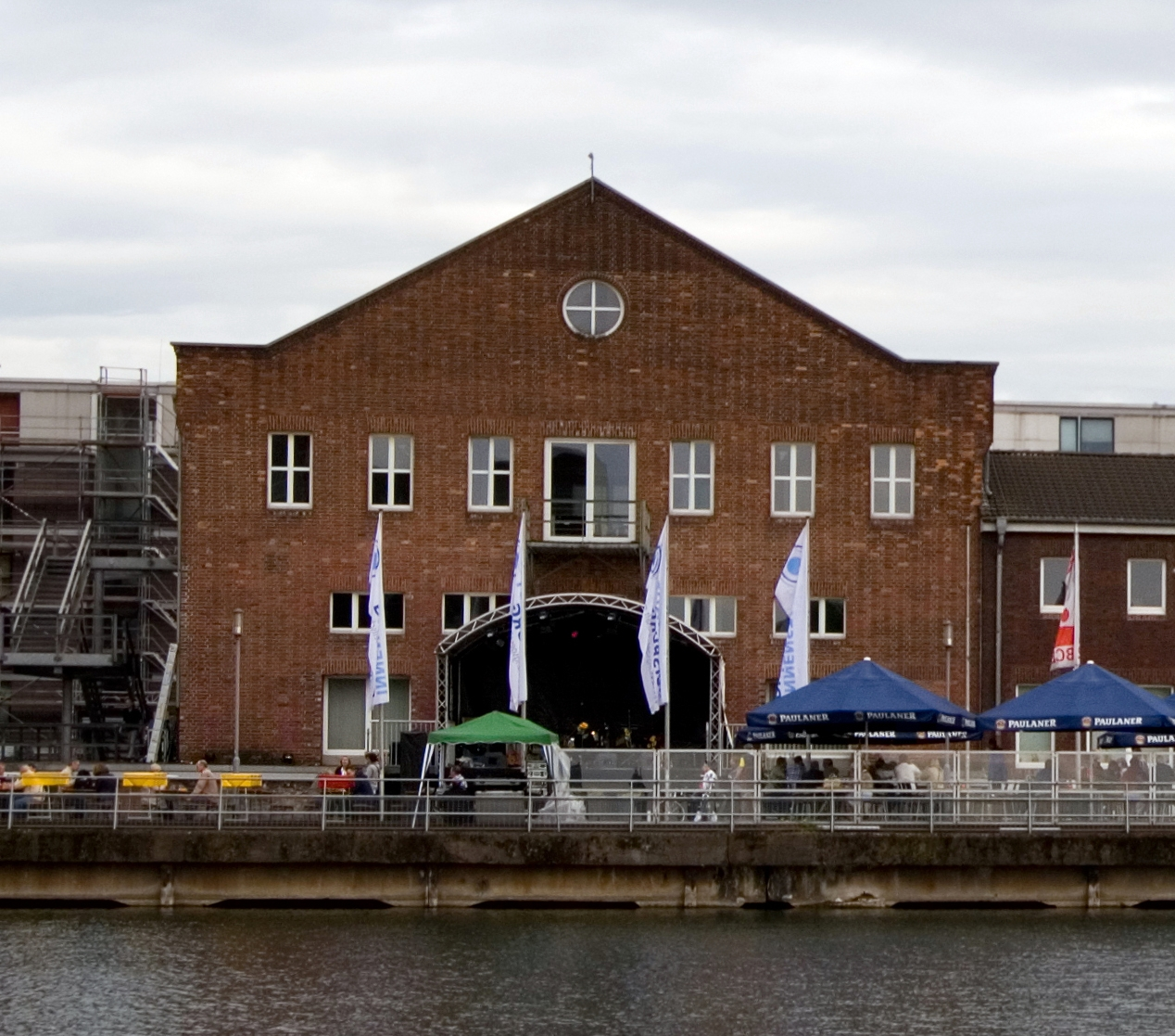 Duisburg (North Rhine-Westphalia, Germany) – Inner Harbour – storage building Hafenforum This image shows a heritage building in Germany, located in the North Rhine-Westphalian city Duisburg (no. 379). This photograph was taken with a Nikon D3000.